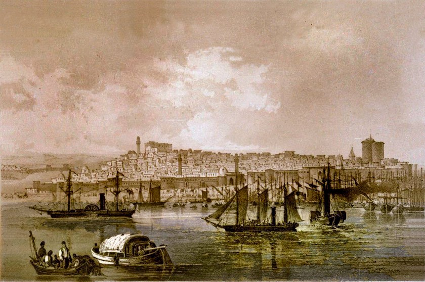 Baku